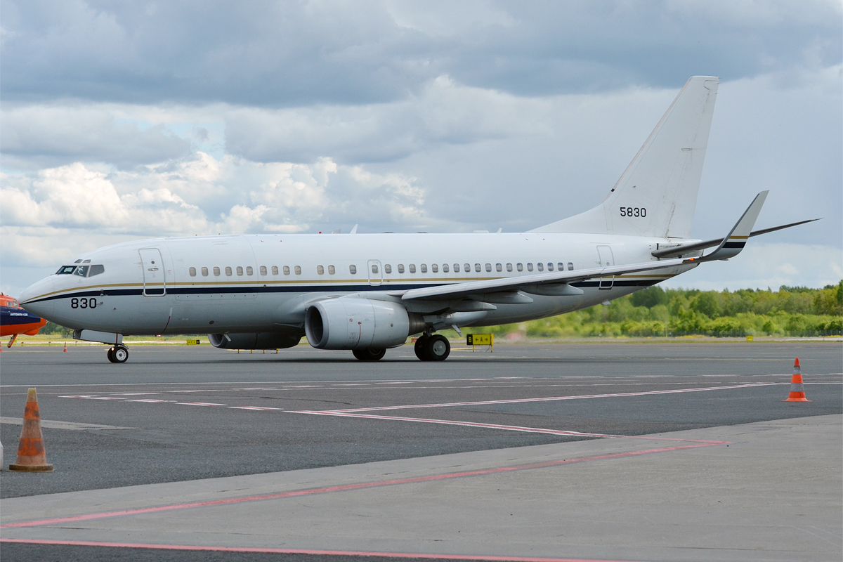 US Navy, 165830, Boeing C-40A Clipper